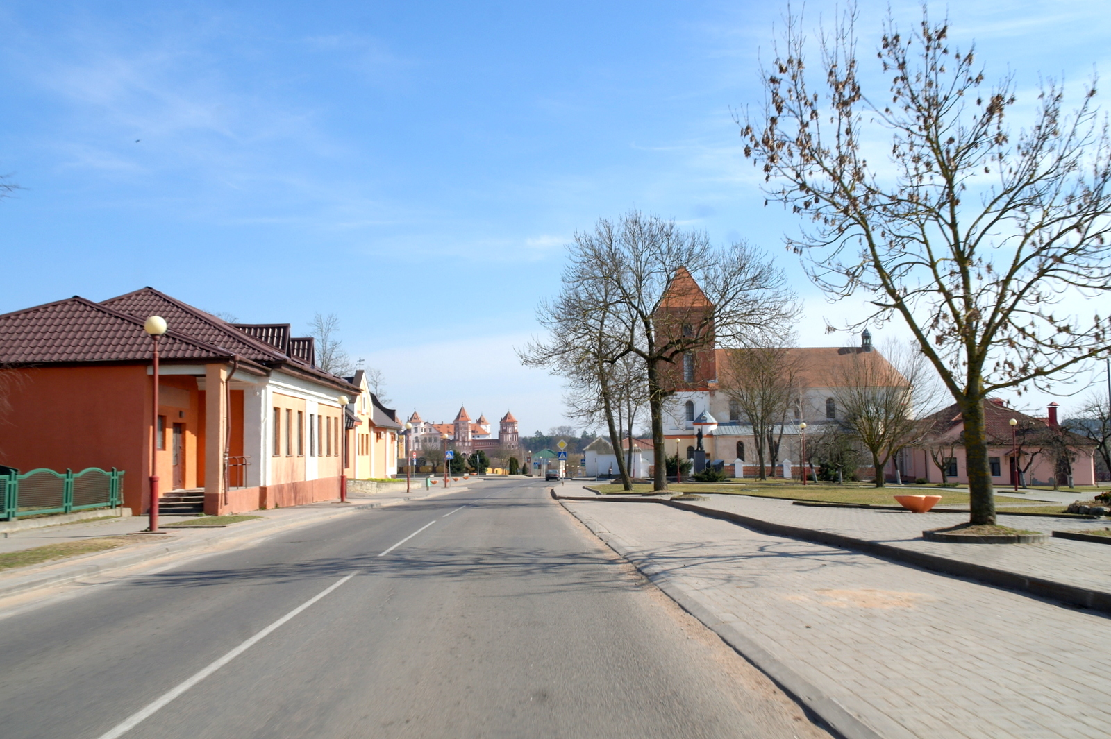 Church of Saint Nicholas, urban settlement Міr. View from Red Army street.